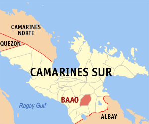 Map of Camarines Sur showing the location of Baao